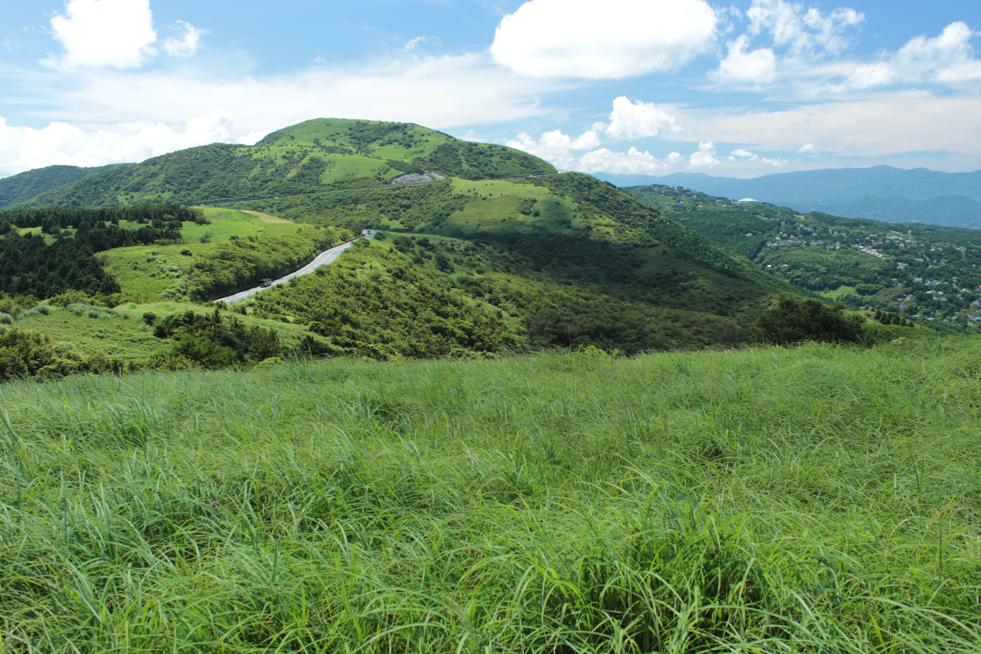 Mount Kuro (Kuro-take) with Izu Skyline as seen from the north in northeastern Izu Peninsula, Shizuoka Prefecture, Japan.